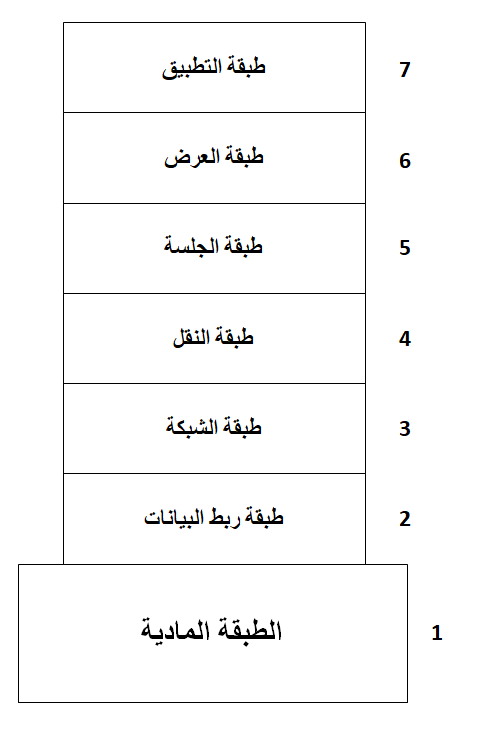 The Physical layer In the Open Systems Interconnection OSI Model.